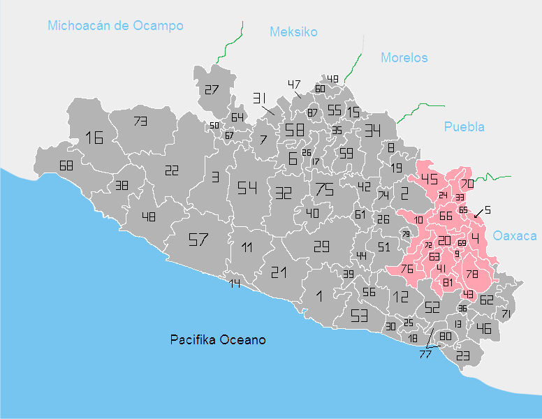 Locator map of the region "La Montaña" in the Mexican state of Guerrero